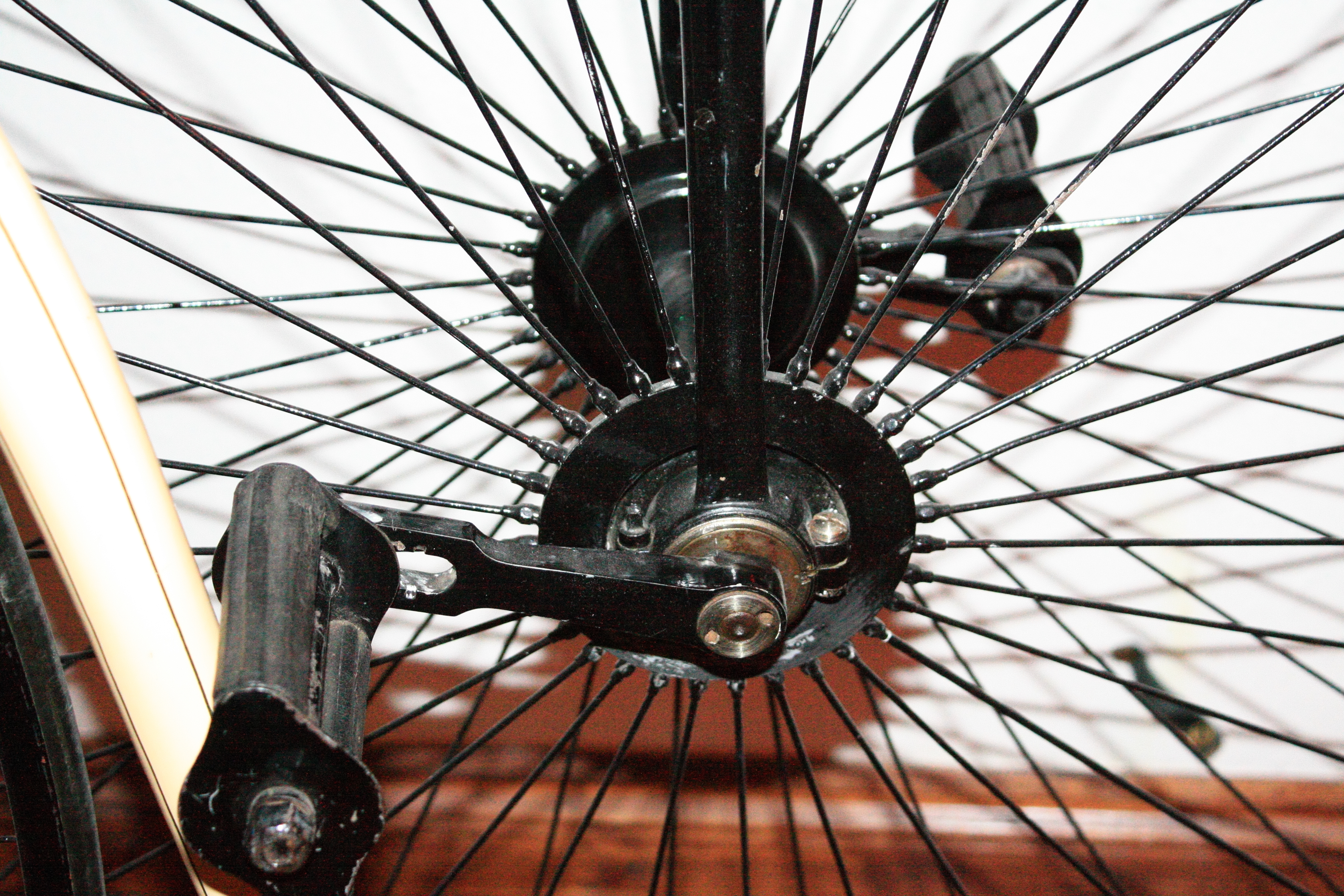 "This machine has a 56" front wheel and was made at the Humber factory at Beeston, near Nottingham." Coventry Transport Museum, UK. 2009